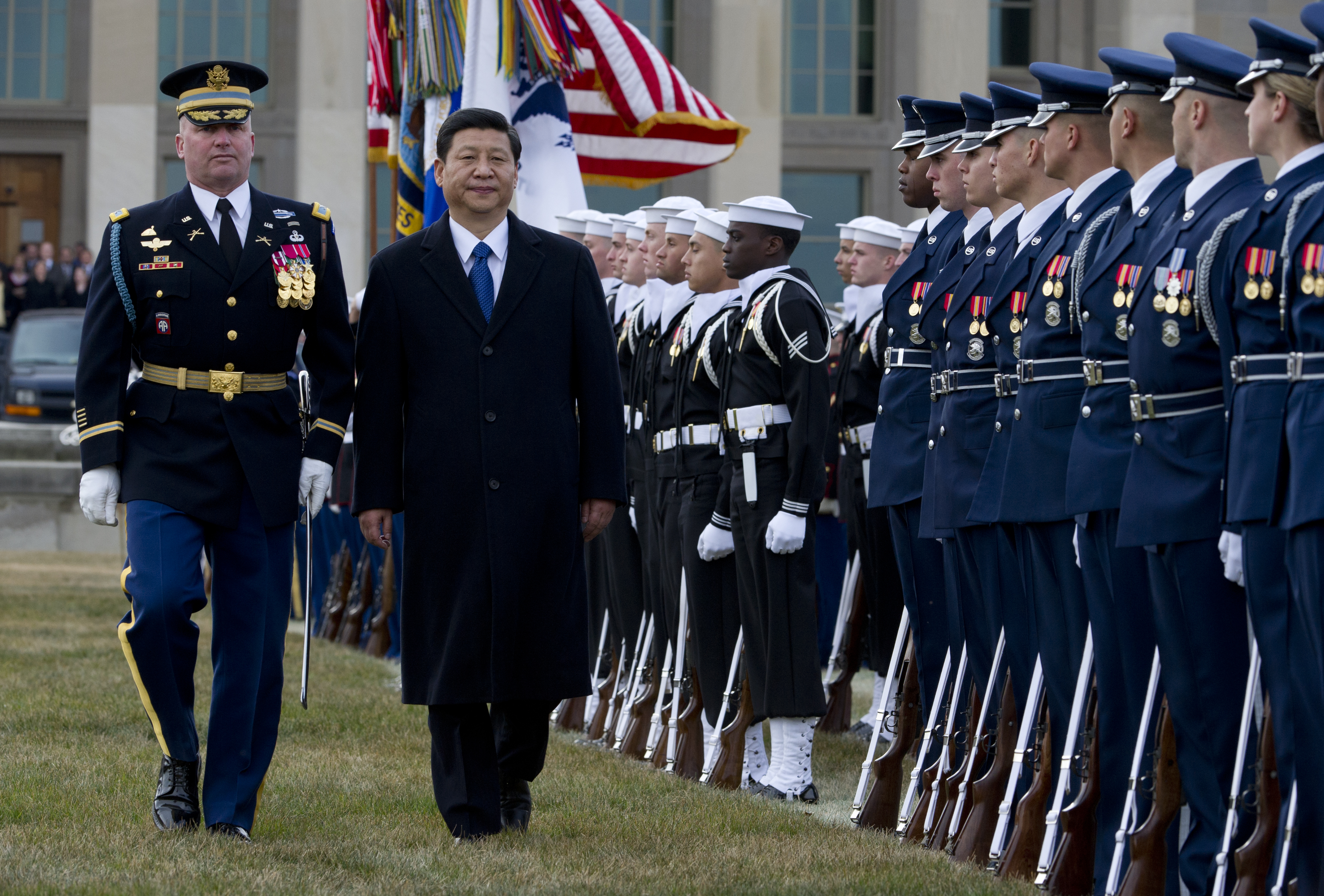 A full honors arrival ceremony welcomes Chinese Vice President Xi Jinping to the Pentagon on 14 February 2012.